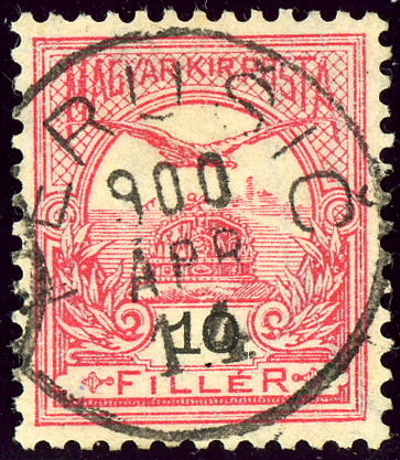 Kingdom of Hungary 10 fillér rose stamp cancelled at Perušić in 1900 (Military Border, Croatia). Michel N°60A